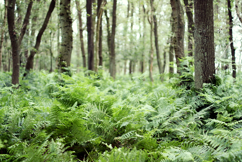 Ferns in the woods near Posbank, Nationaal Park Veluwezoom, Nederland